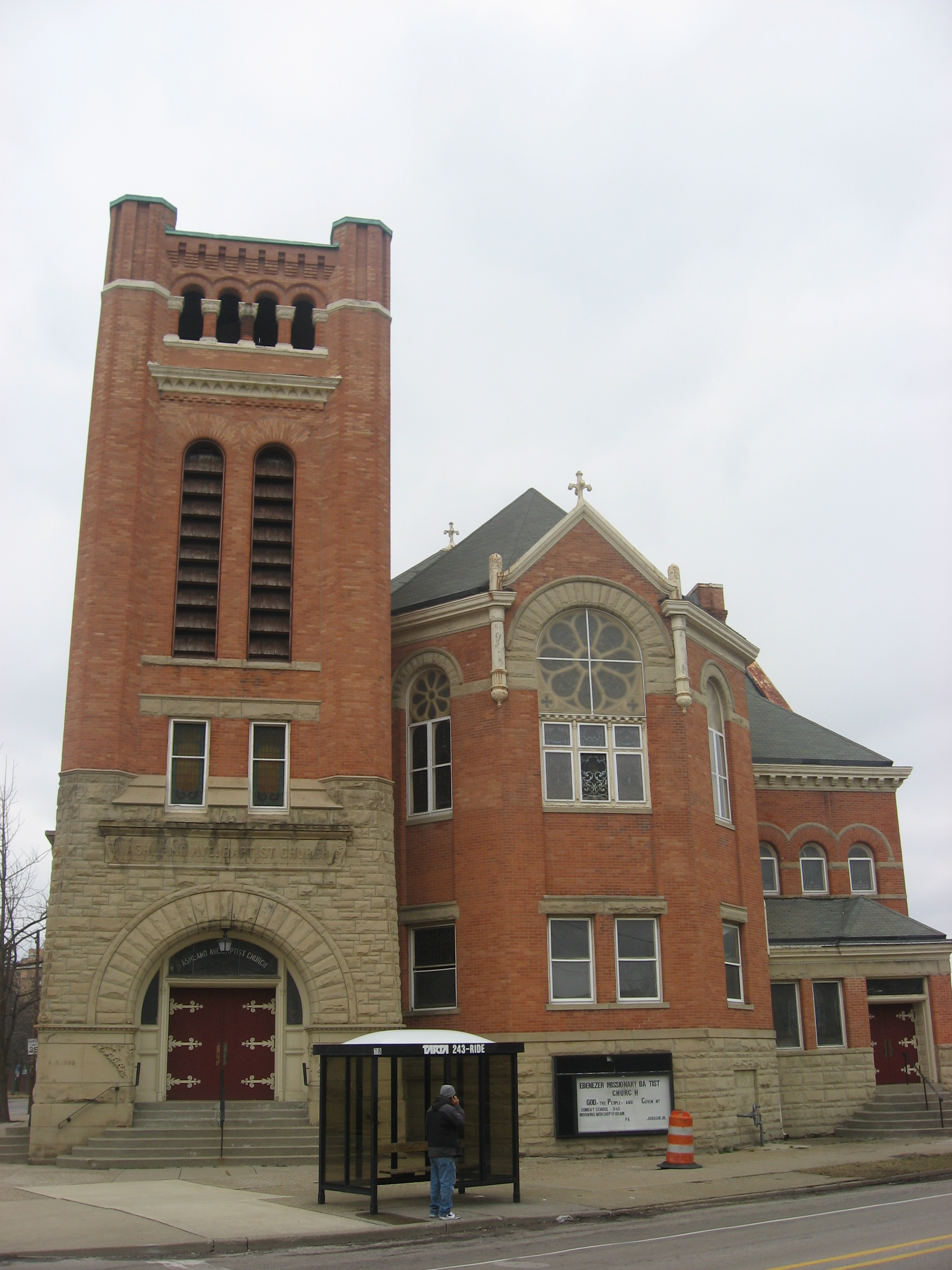 Front of the former Ashland Avenue Baptist Church (now Ebenezer Missionary Baptist Church), located on the northwestern corner of the junction of Ashland and Woodruff Avenues in Toledo, Ohio, United States. Built in 1895, it is listed on the National Register of Historic Places.